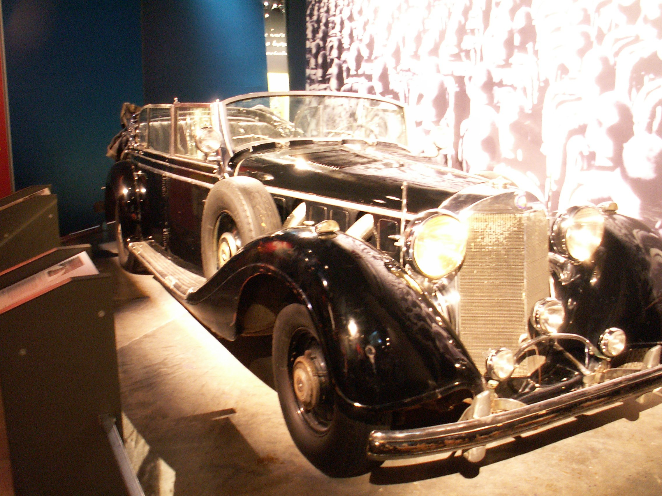 Front view of Adolf Hitler’s car, a Mercedes-Benz 770K (W150) (Photo taken at the Canadian War Museum, Ottawa, Canada)